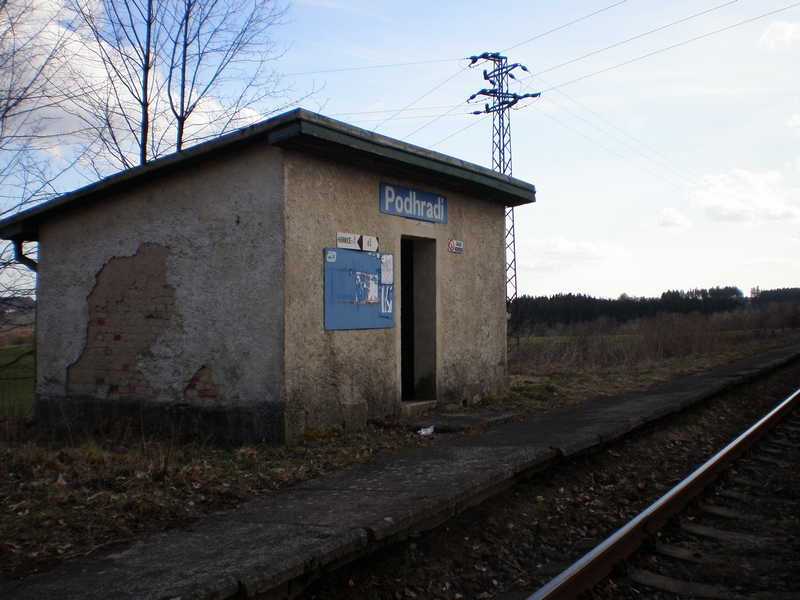 Podhradí, Railway shelters